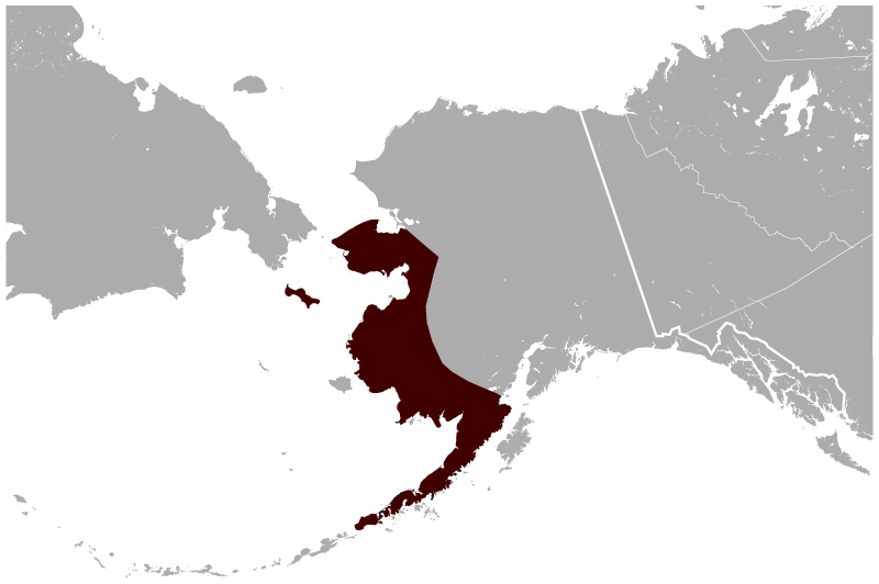 Geographical distribution of the Nelson's Collared Lemming Dicrostonyx nelsoni. The map was created using the Generic Mapping Tools, GMT, version 5.1.1.